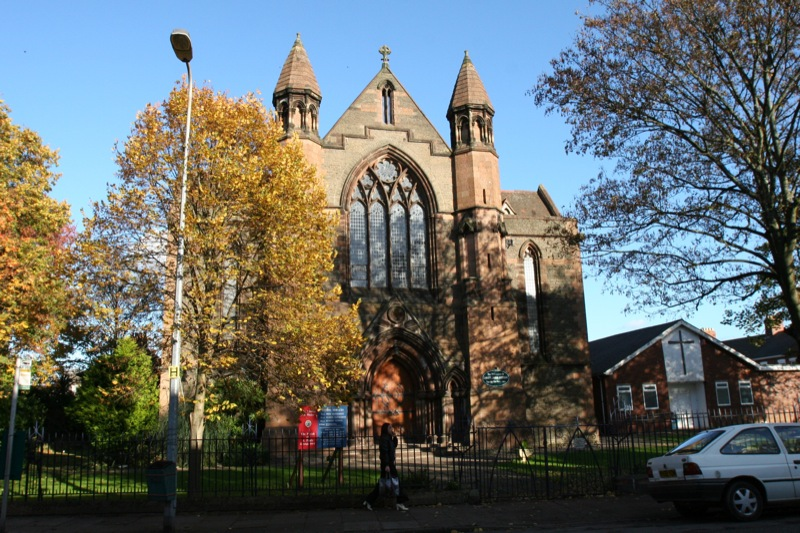 The church from the episode Father's Day where Rose saves her father from dying and mucks up time.. Doctor Who Experience